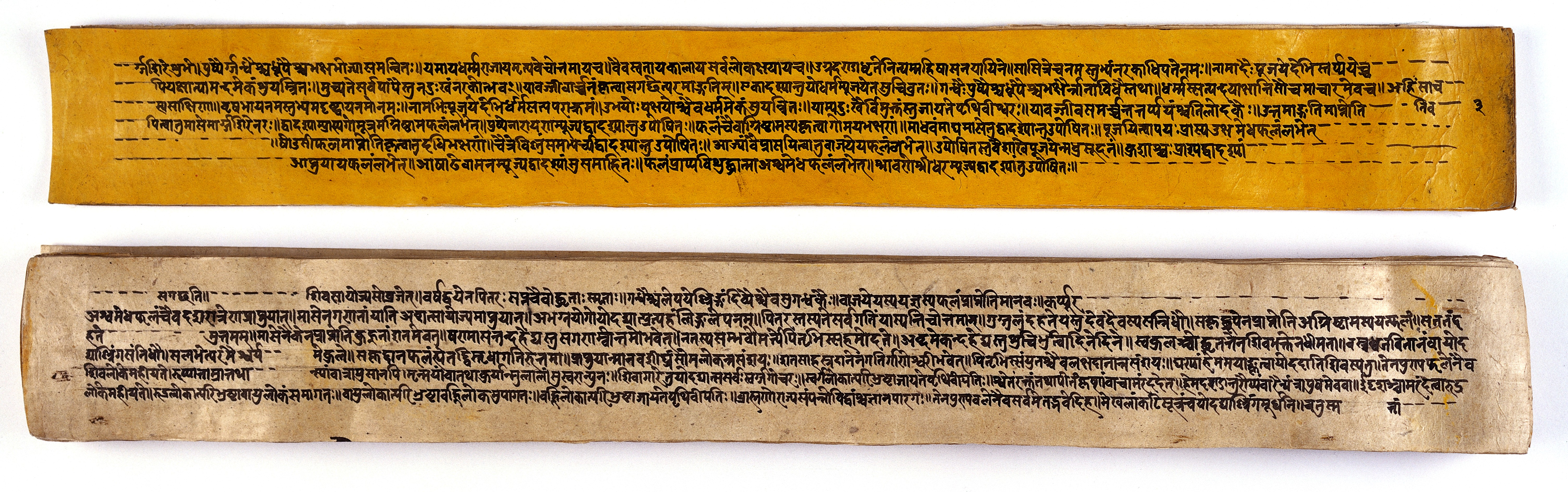 A copy of the tantric work Nihsvasatattvasamhita transcribed by Bauddhaesevita Vajracarya for Dr Paira Mall (1874 - 1957) in Katmandu, Nepal, c. 1912, from a palm-leaf manuscript. Asian Collection